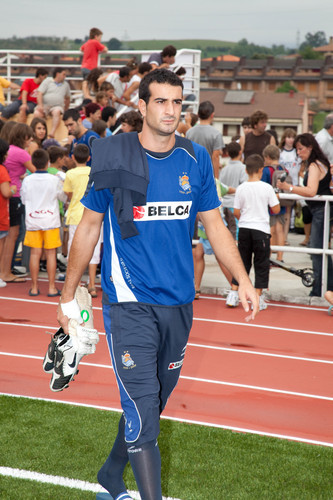 Toño Ramirez in 2009